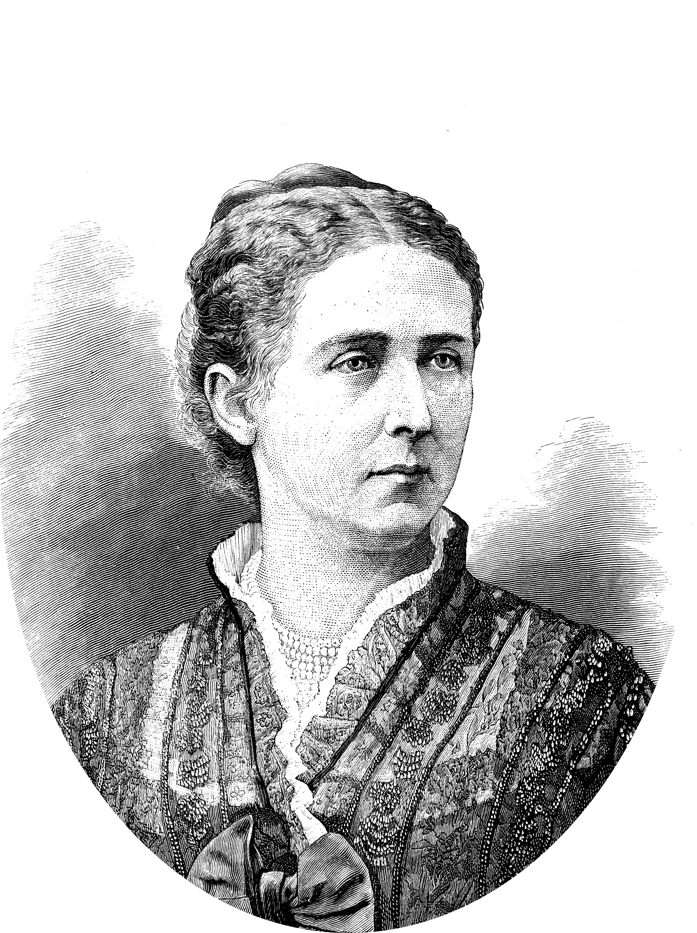 H.R.H. Princess Marie of Hohenzollern-Sigmaringen, Countess of Flanders.